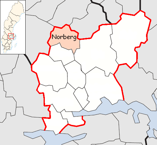 Norberg Municipality in Västmanland County Designed by me. Mere outlines are a PD source from